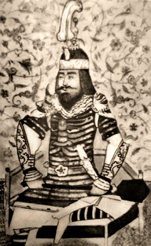 Portrait of Timur. Thumbnail XV century. Perhaps a copy of an earlier original